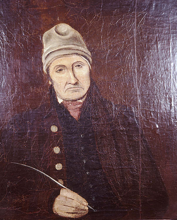 Contmeporary portrait in oils on wood (c. 1790-1800) of Welsh-language dramatist and poet Thomas Edwards (Twm o'r Nant) (1739-1810), by Welsh artist Lewis Hughes. Original in Welsh Folk Museum, St Fagans, Cardiff, Wales.